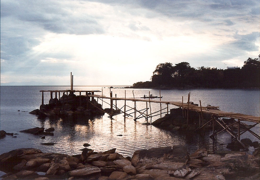 A small jetty into Lake Malawi at Nkhata Bay, northern Malawi. Three fishermen in two canoes are heading home for the evening, to the town's main beach 100 m ahead of them. A good distance around the headland is Njaya Lodge. Taken from Africa Bay Beach Village in December 1996, on film. A larger jetty extends from the peninsula in the right background but cannot be seen in this picture.